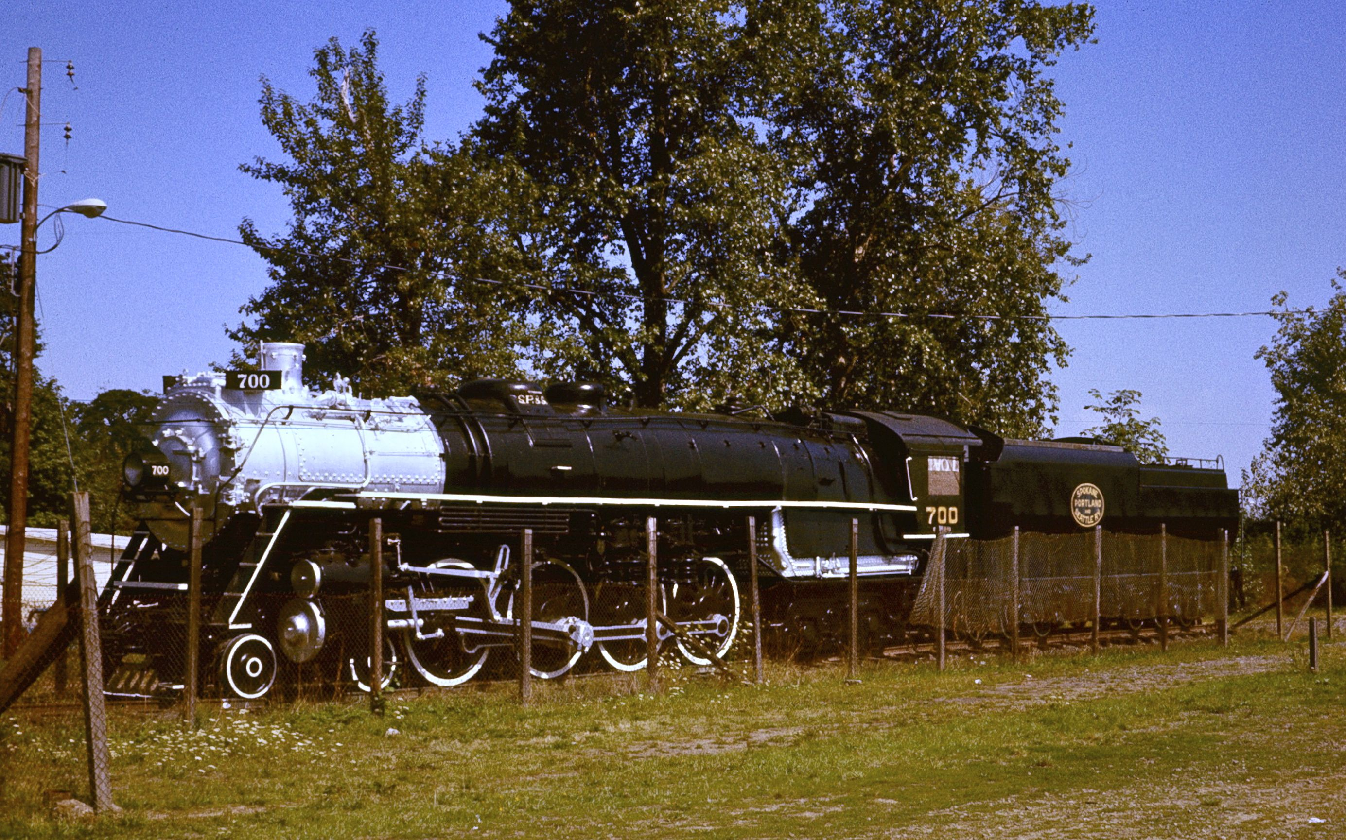 Spokane, Portland and Seattle Railway locomotive 700 on long-term display at Oaks Amusement Park in 1978, before it was restored to operating condition.